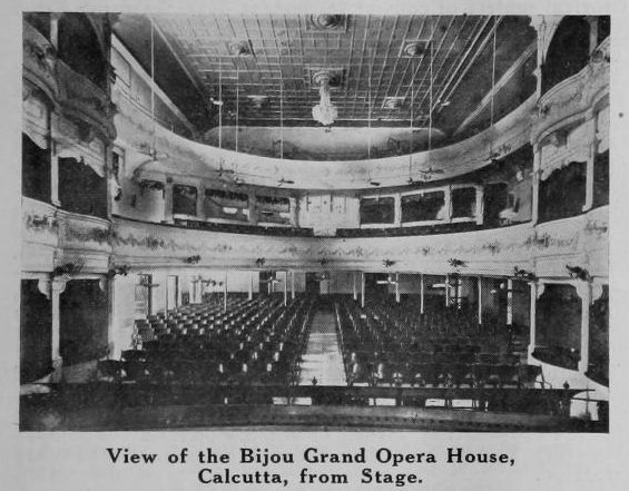 Bijou Grand Opera House, view from the stage. Calcutta